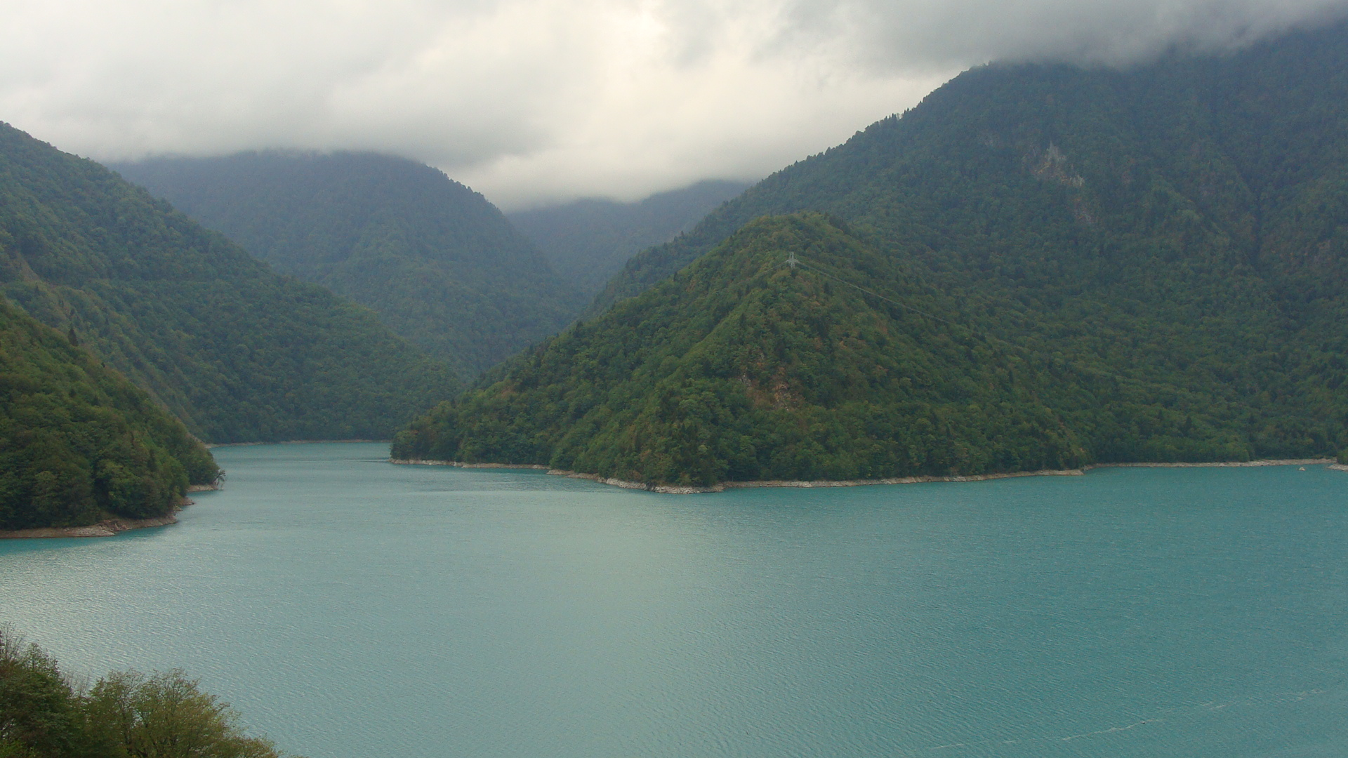 Jvari Lake Landscape